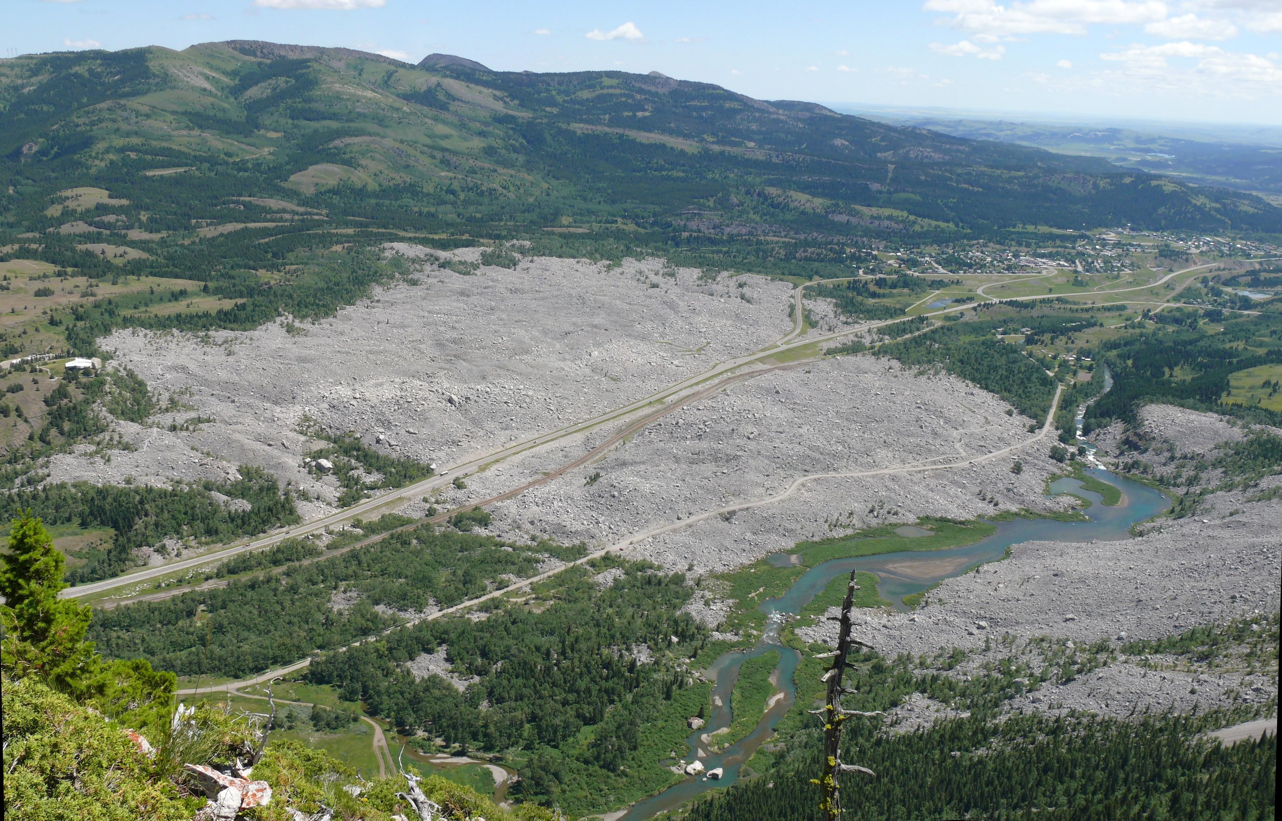 Frank Slide from NW flank of Turtle Mountain.